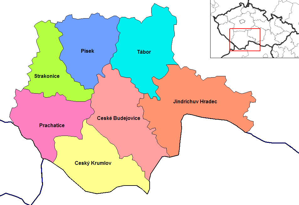 Map of the districts of South Bohemia region of the Czech Republic. Created by Rarelibra 15:29, 2 January 2007 (UTC) for public domain use, using MapInfo Professional v8.5 and various mapping resources.